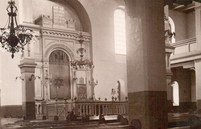 Inside of the Choral synagogue of Tallinn, built in 1885, destroyed during WWII.